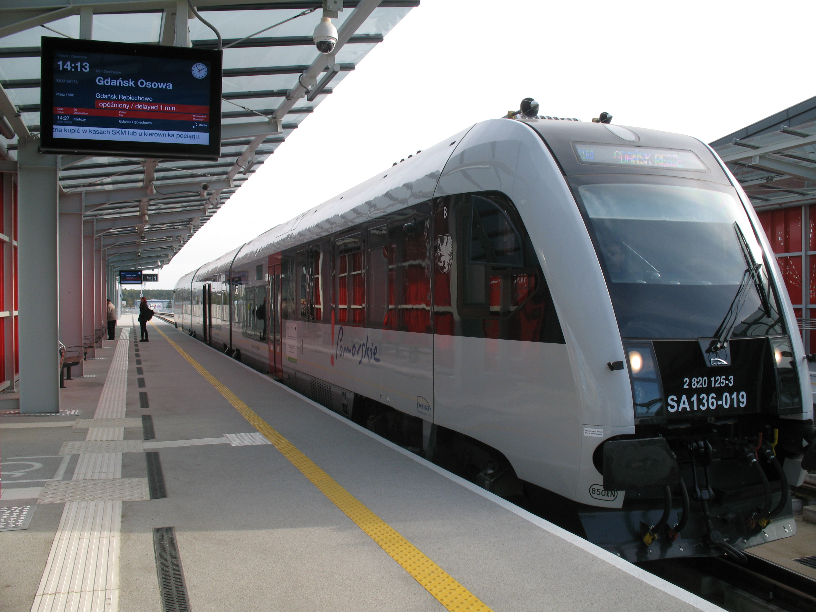 Passenger train at the railways station at Gdansk Airport